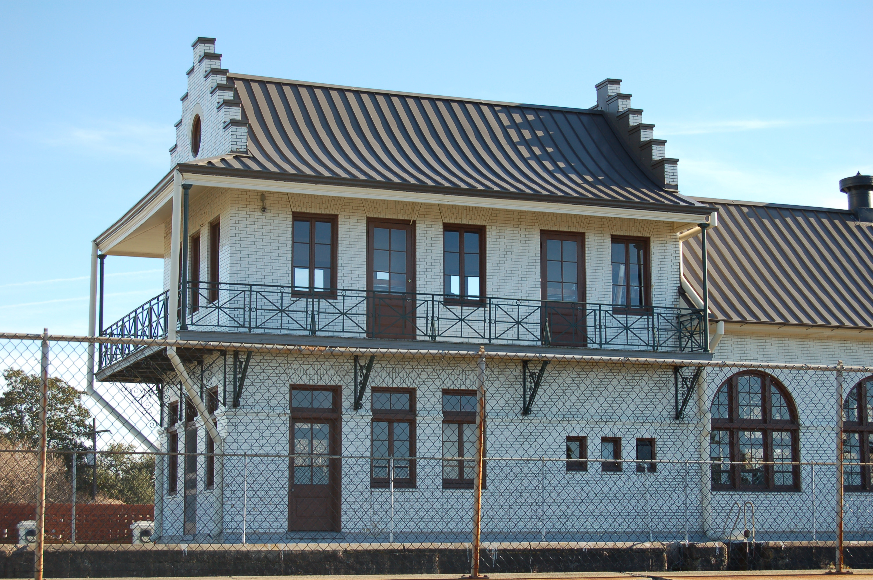 Bayou Plaquemine Lock